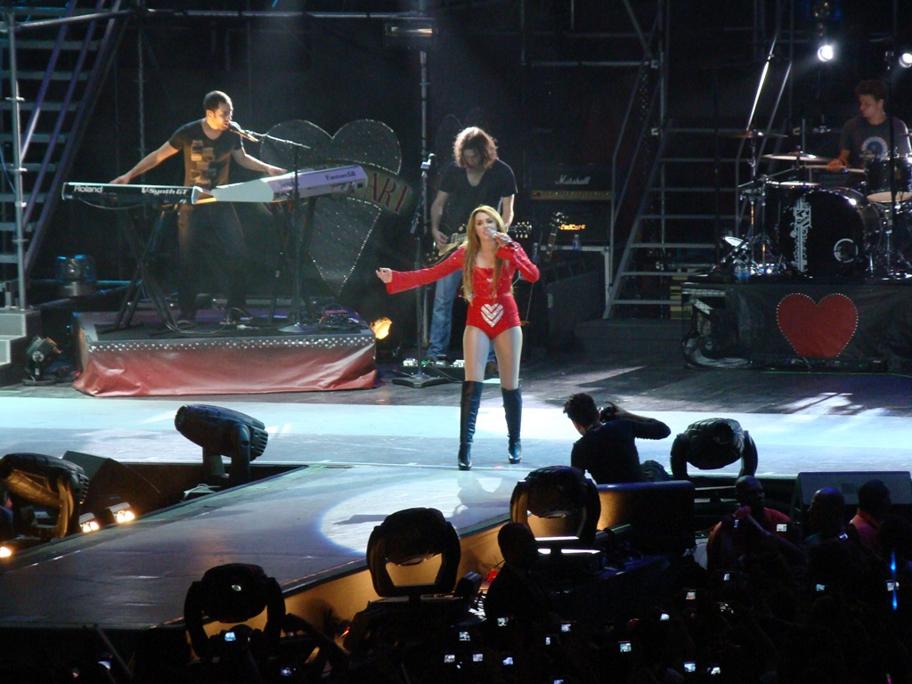 Miley Cyrus singing live in Curicica, Rio de Janeiro, RJ, BR from her tour 'Gypsy Heart'